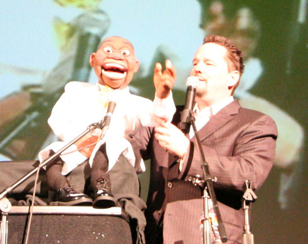 Terry Fator appears at the "Ponca Theater" in Ponca City, Oklahoma on May 6, 2008.